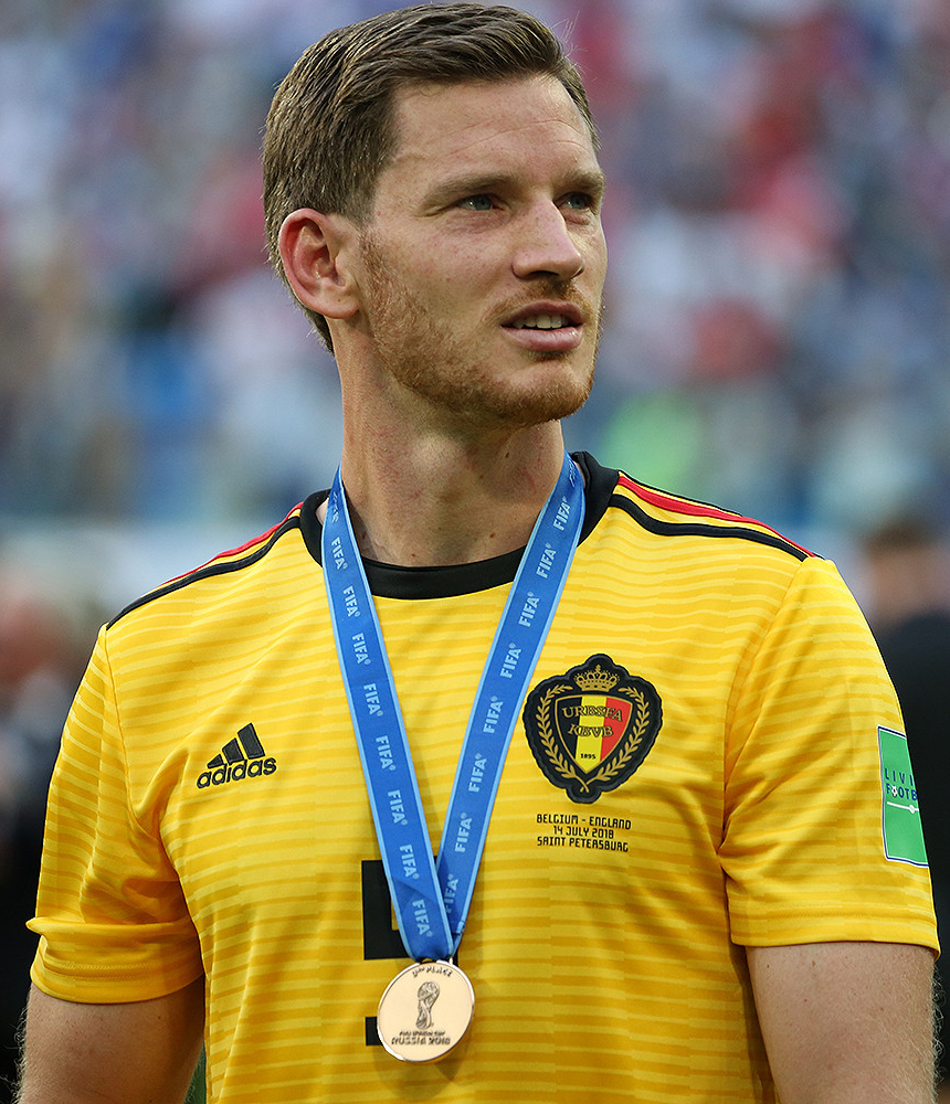 Belgian footballer Jan Vertonghen on 14 July 2018, during the 2018 FIFA World Cup third place playoff match between Belgium and England.